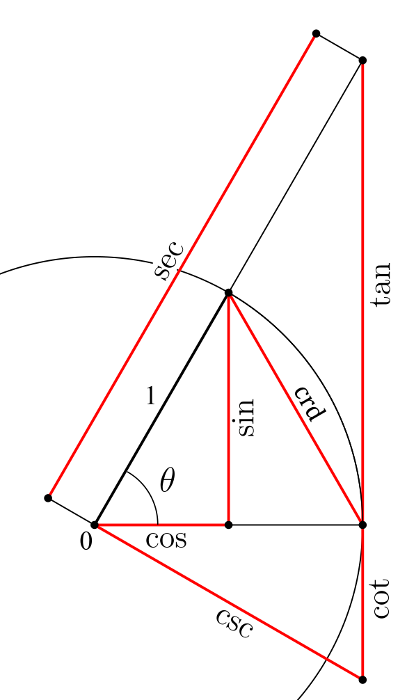 the geometrical construction of the trigonometry functions